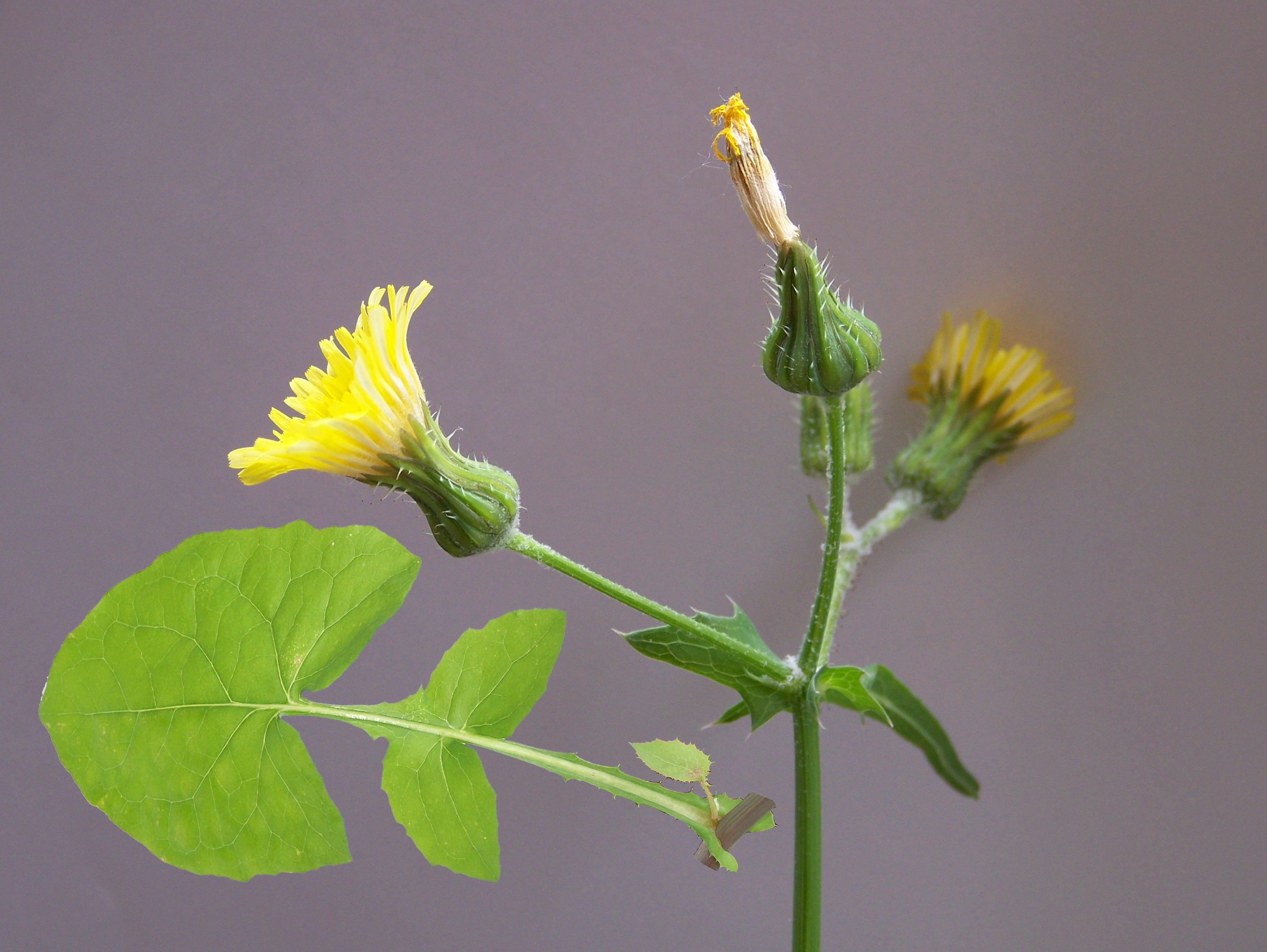 Smooth Sowthistle